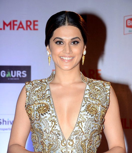 Actress Taapsee Pannu at the 61st Filmfare Awards